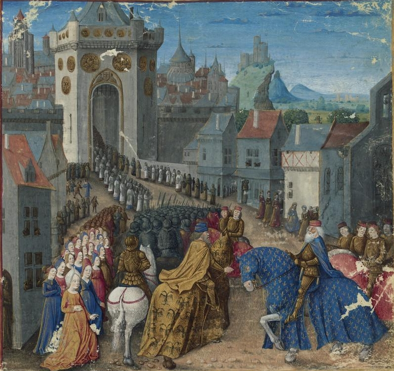 Miniature: Charlemagne at Constantinople.